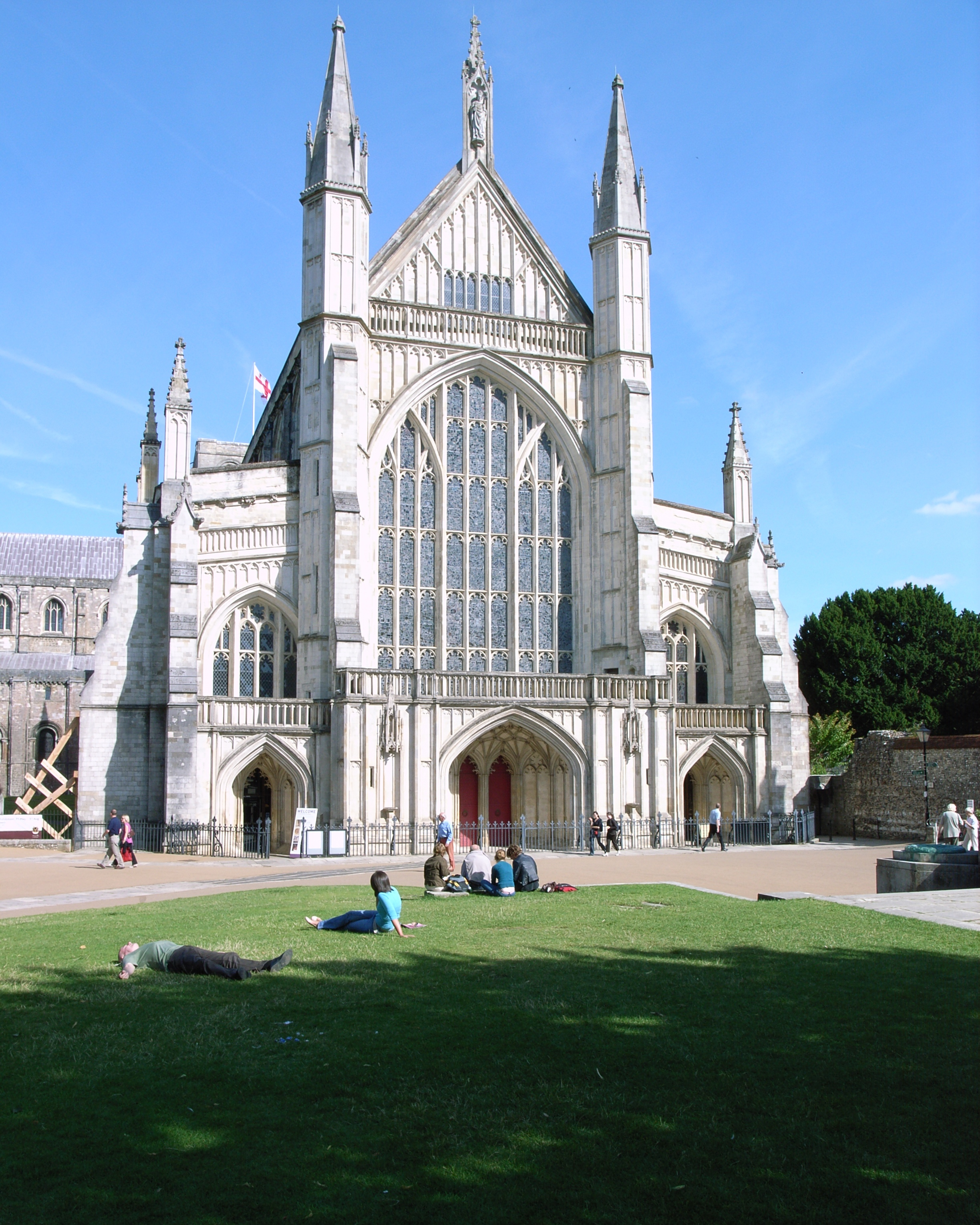 The west front of Winchester Cathedral, Winchester, England.